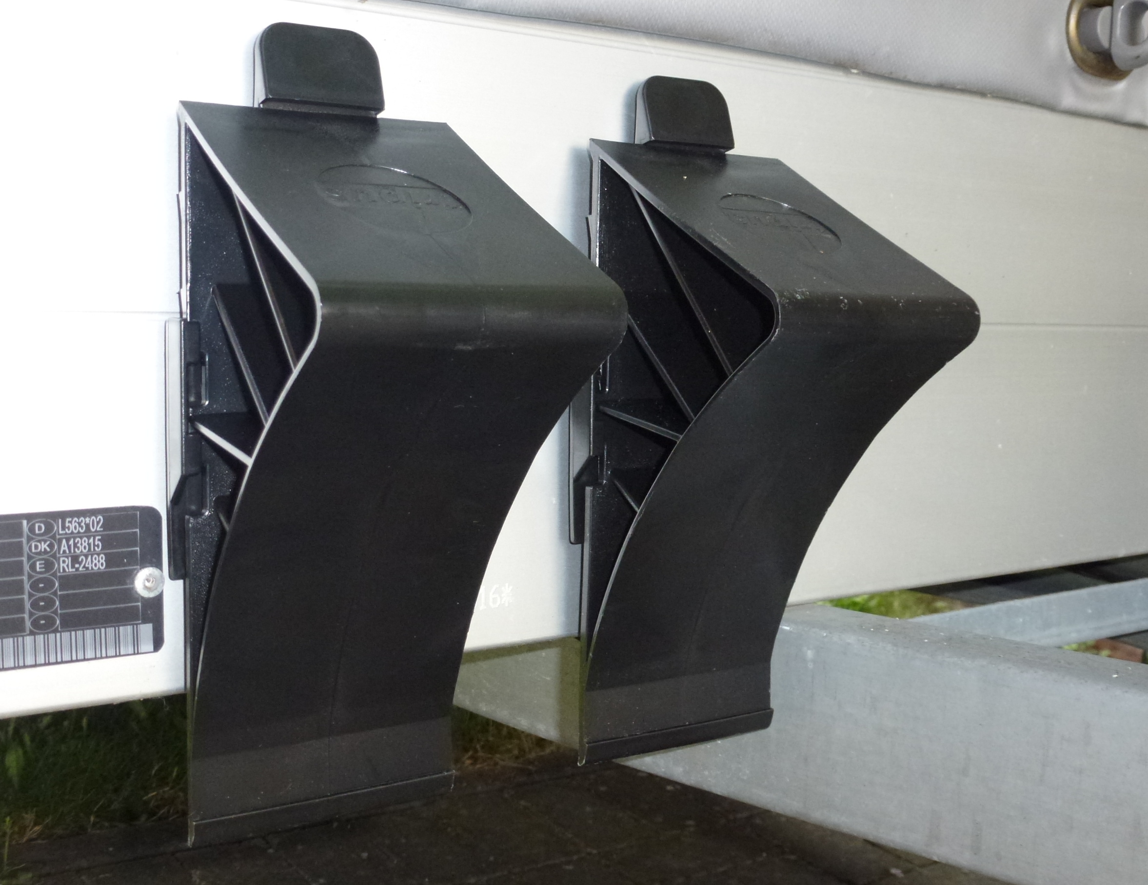 2 chock retaining devices with wheel chocks